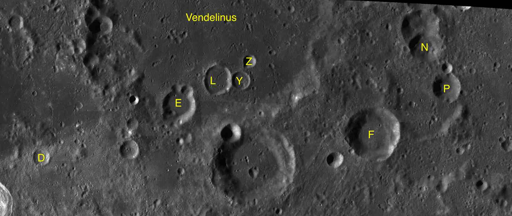 Part of the chart LAC-98 used for the presentation